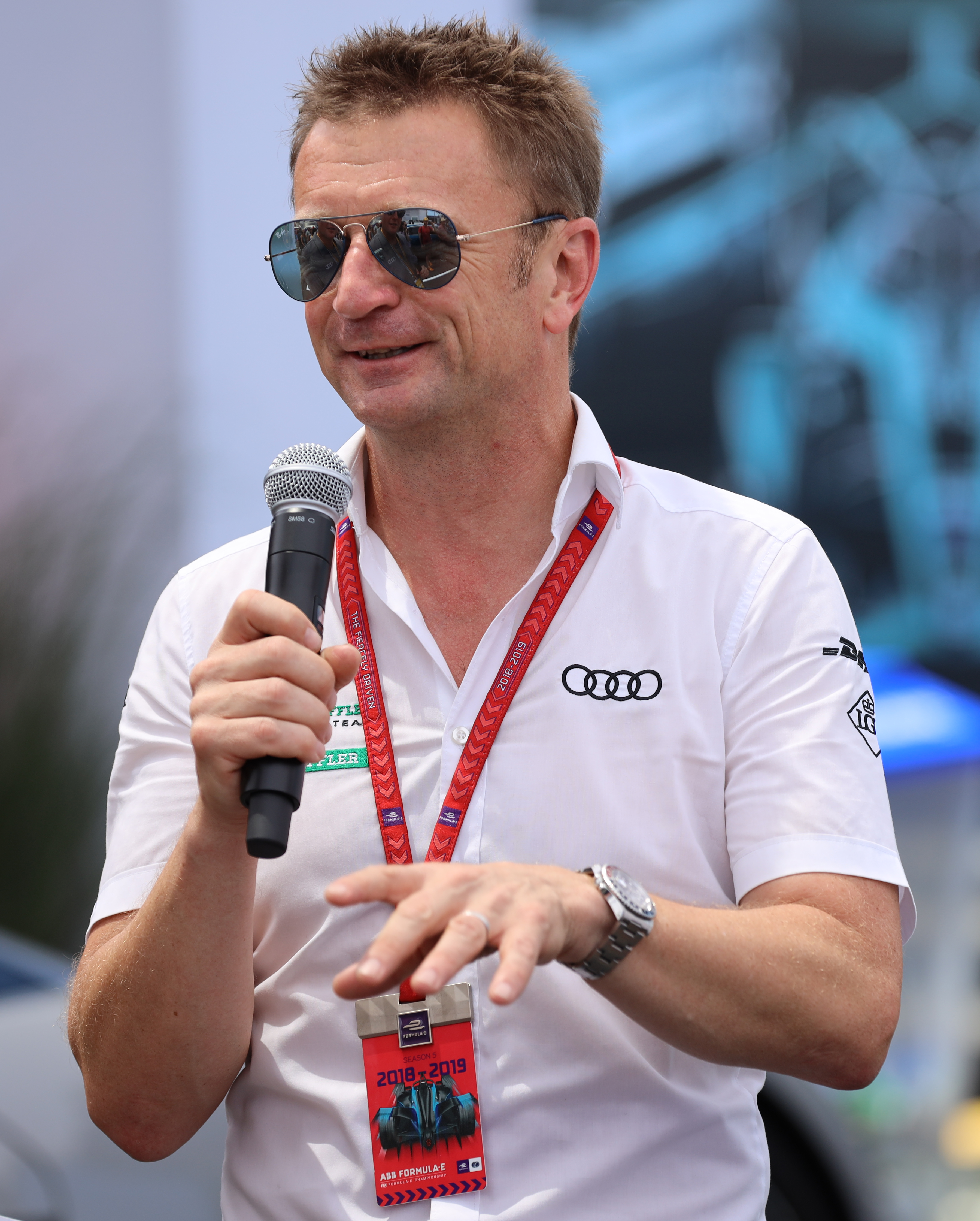 Allan McNish Audi Sport liaison speaking about Audi eTron at 2019 FIA Formula E Championship in NYC